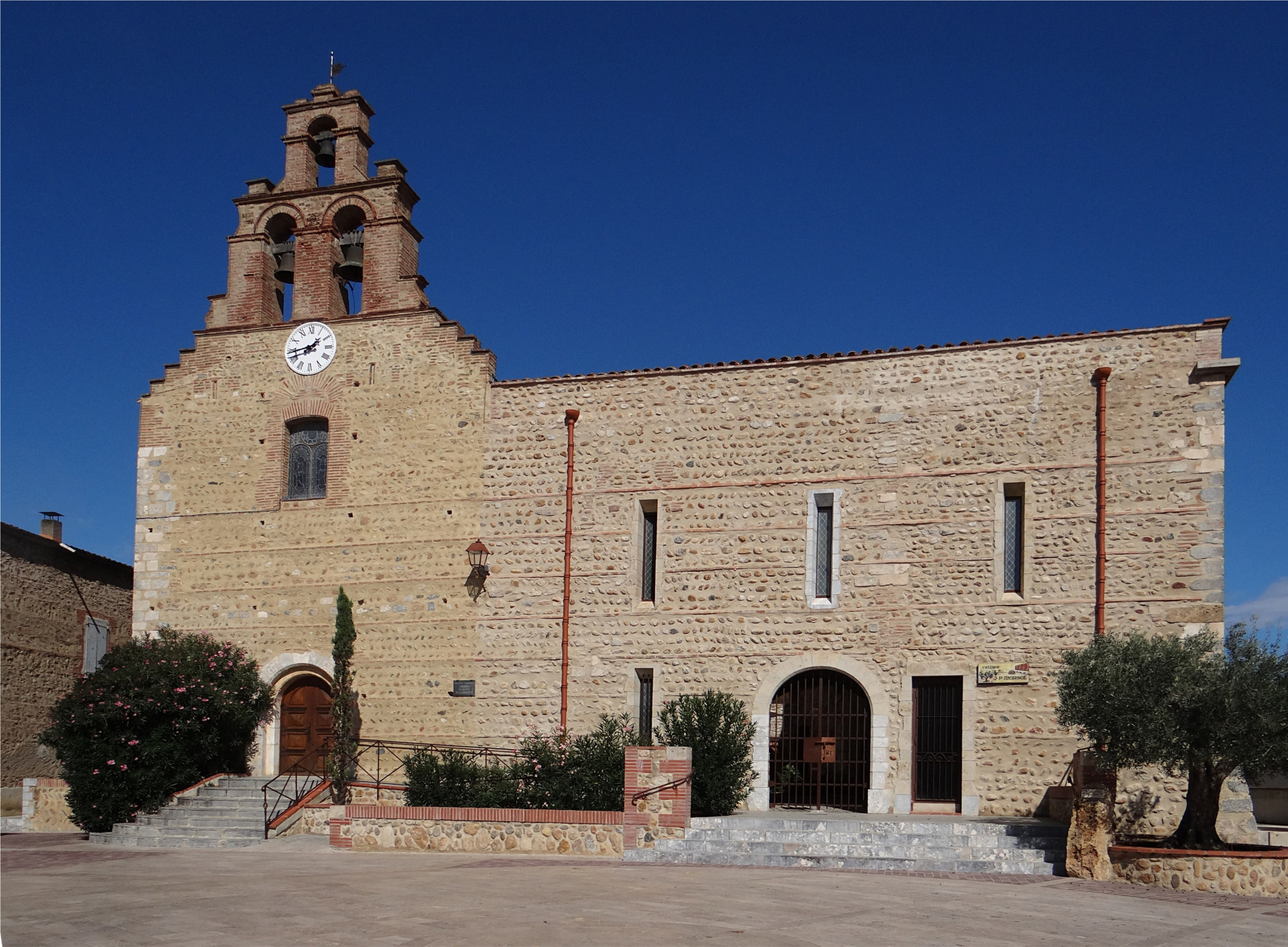 Parish Church of St John the Evangelist, Peyrestortes, Pyrénées-Orientales, France.